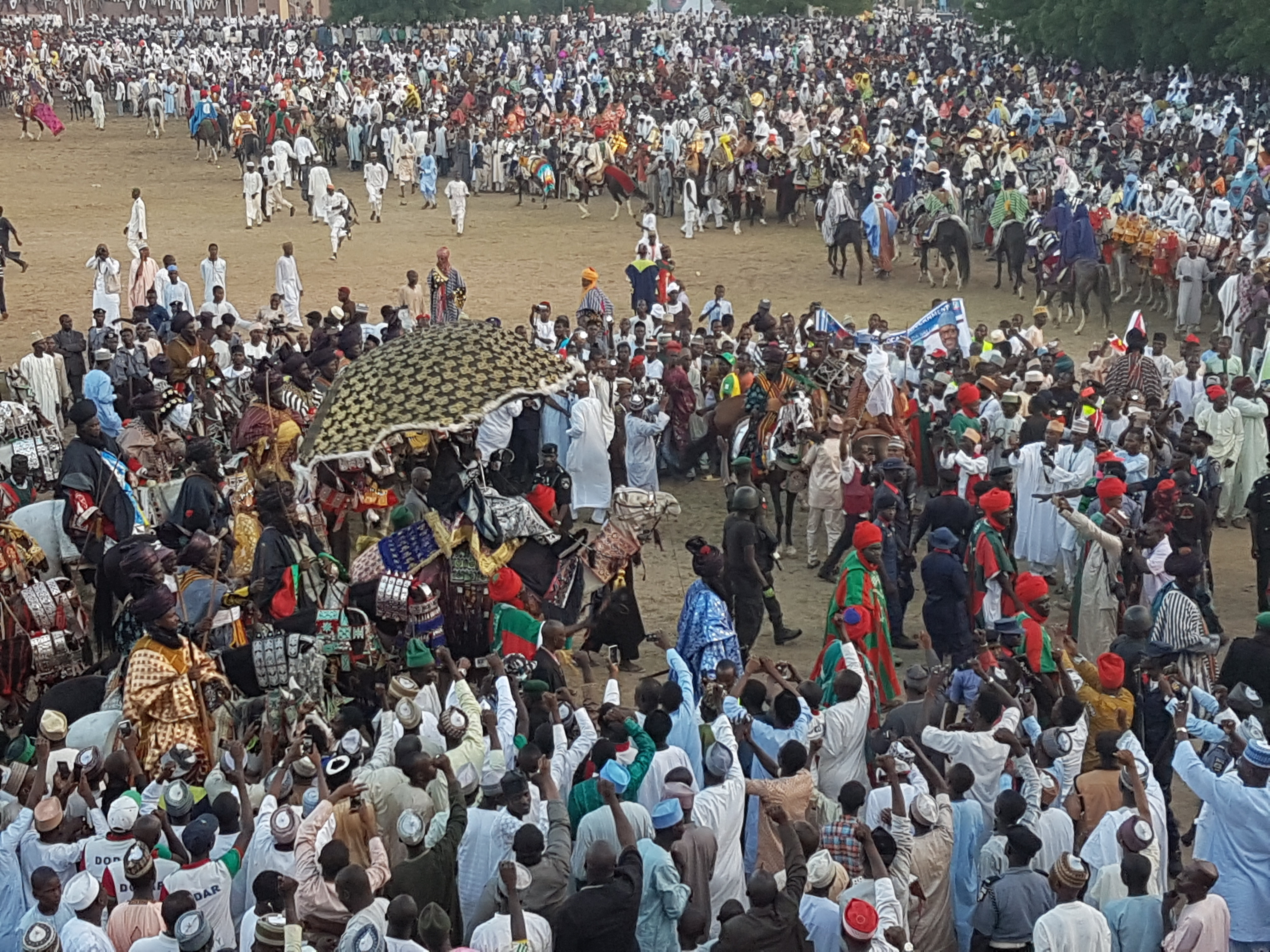 The Emir arrives on camelback during the September 2016 Durbar in Kano.